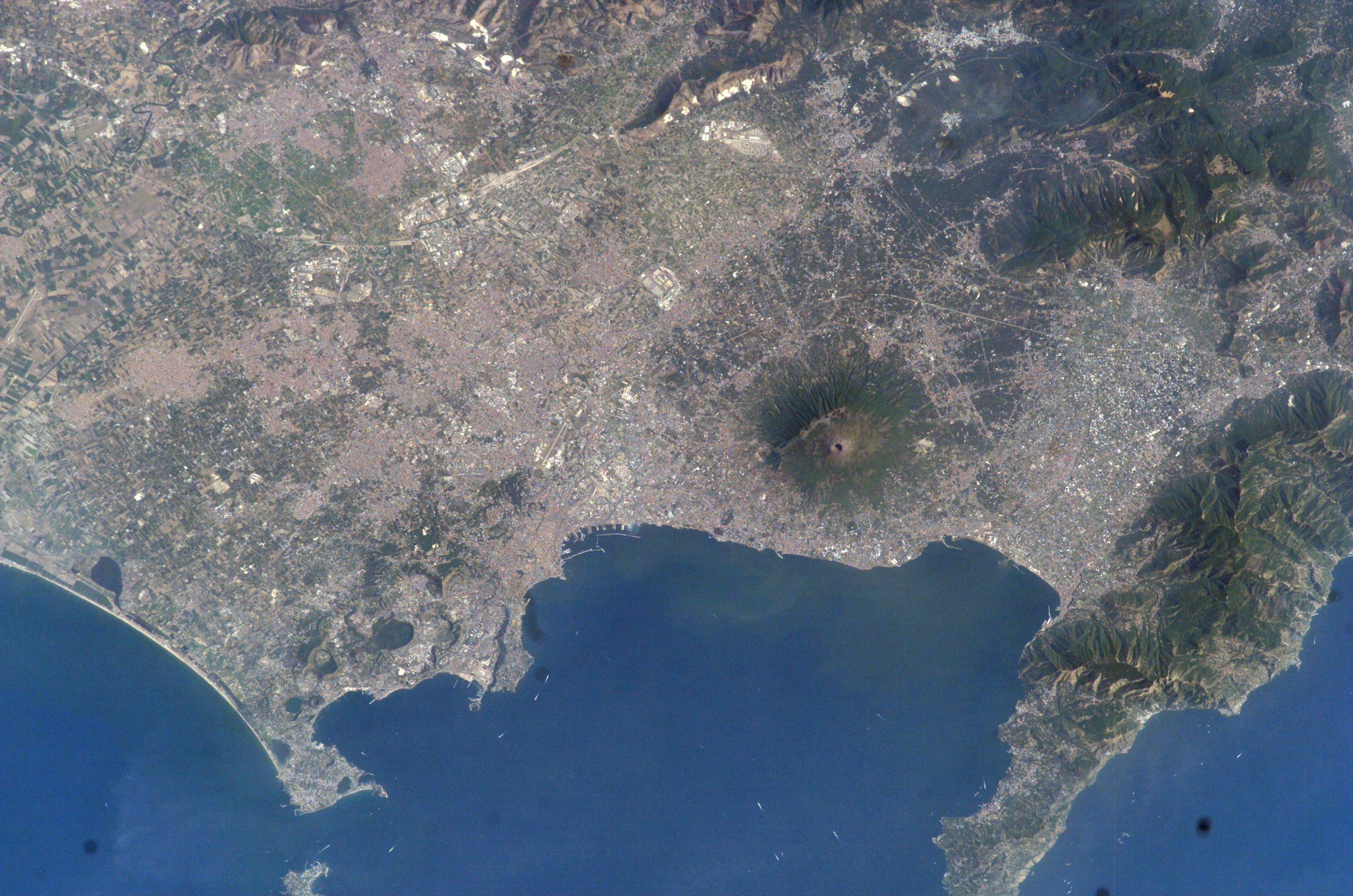 Mt. Vesuvius, Gulf of Naples